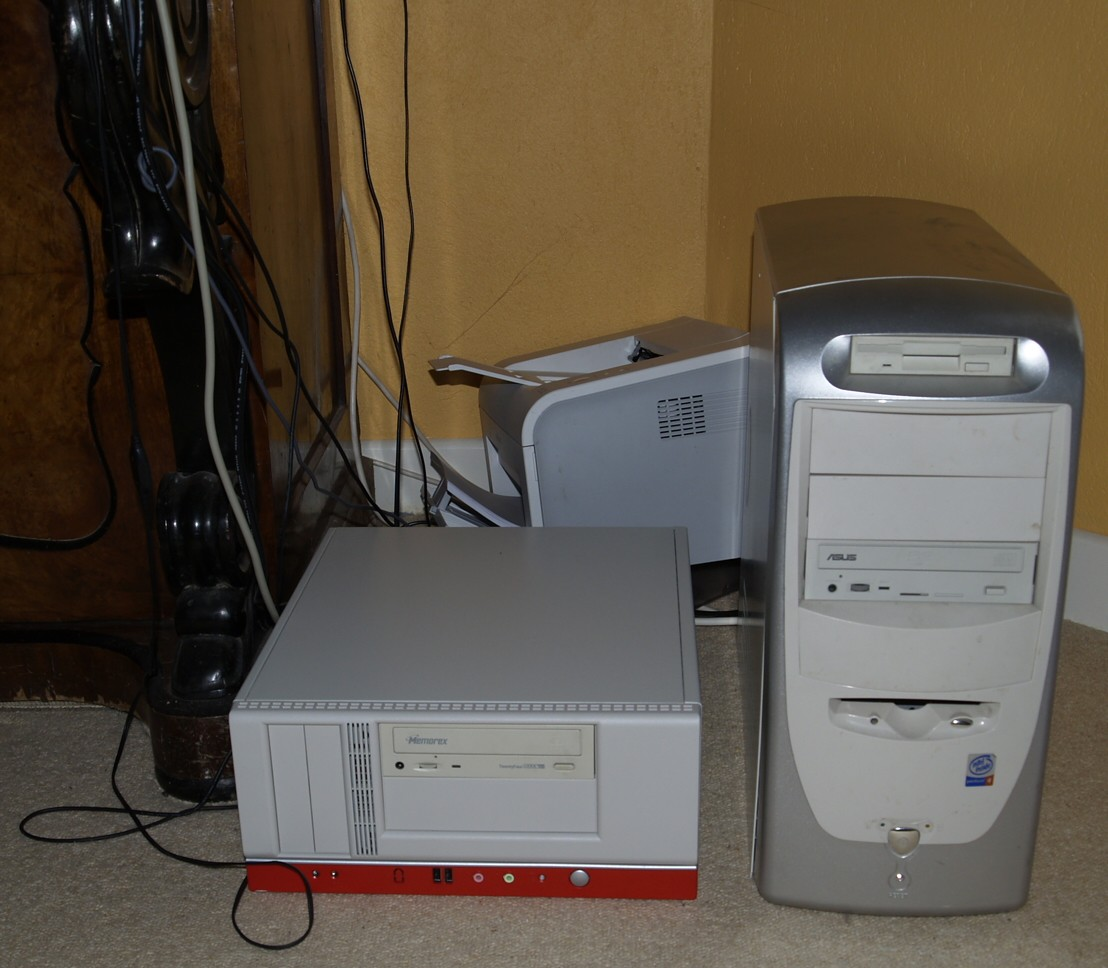 Micro ATX desktop case beside standard ATX tower case